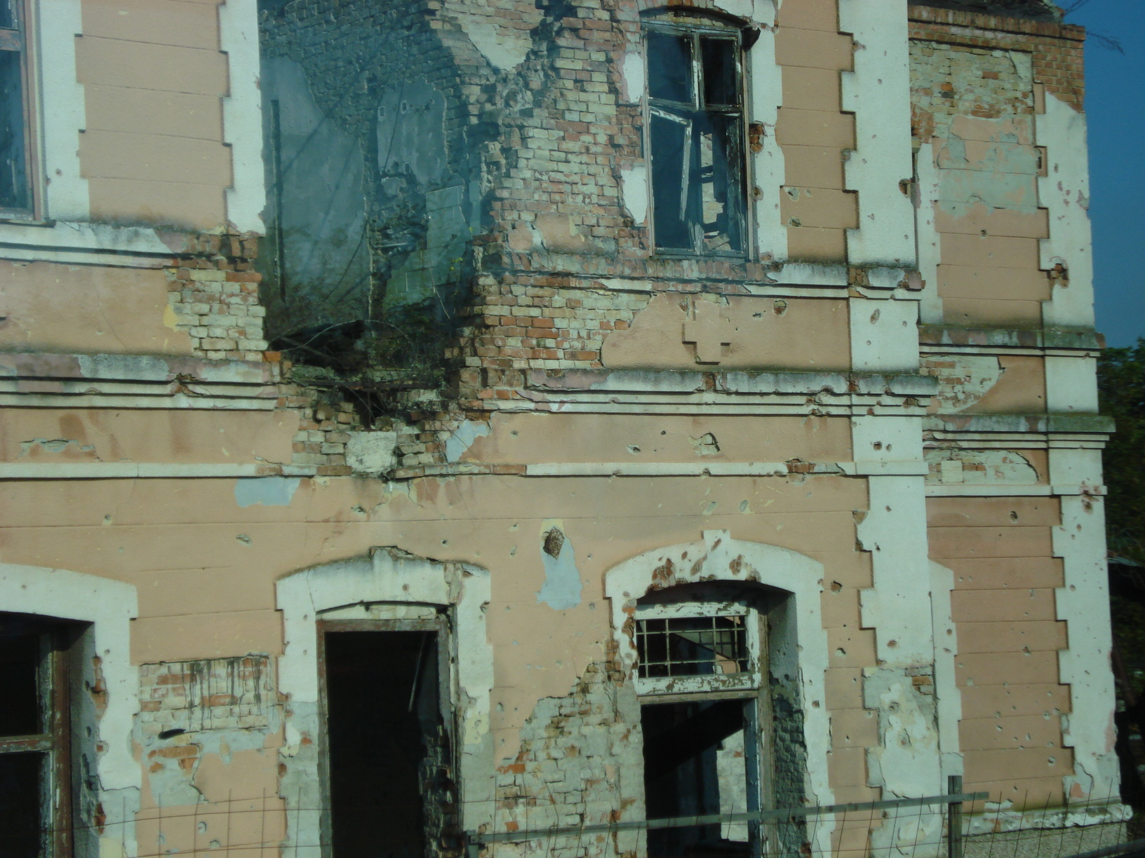 A shelled house after JNA's occupation of Vukovar (1991-1998).